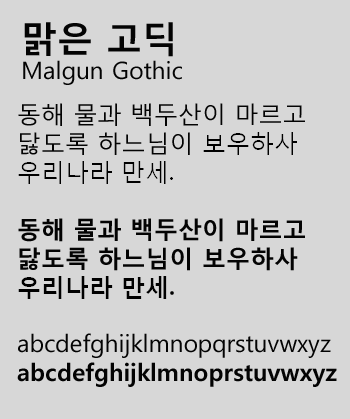 Example of the Malgun Gothic font with the Korean National Anthem